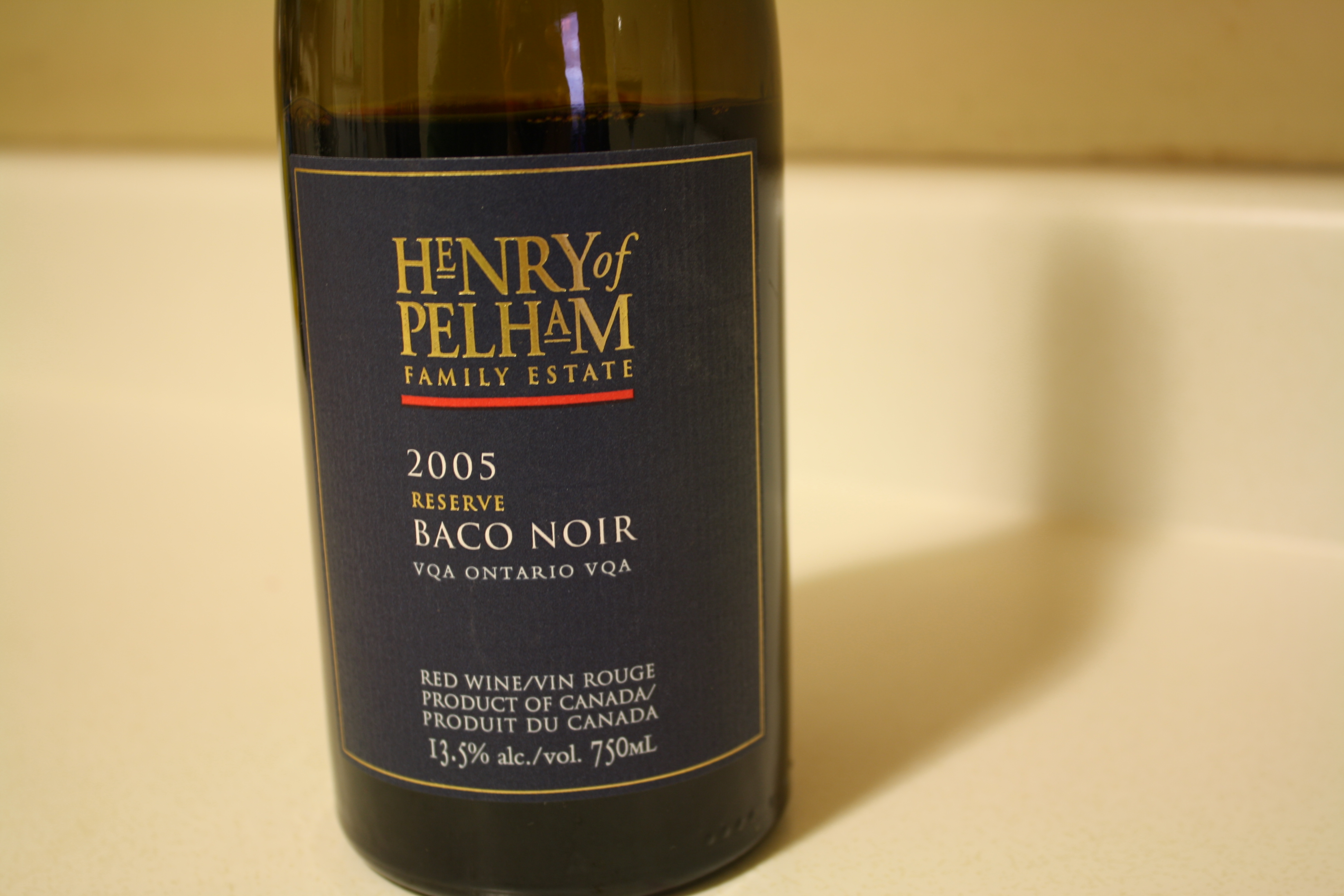 Canadian Baco noir wine from Ontario made from the hybrid grape